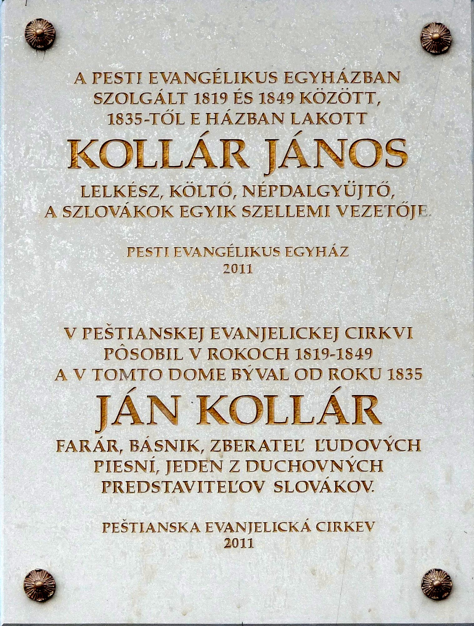 Commemorative plaque to Mr. Ján Kollár (1793–1852) Slovak nationality pastor, poet and collector of folk-songs. It is affixed to the wall of the Evangelical Lutheran Church where he served between 1819 and 1849. (Budapest, District V, Deák Square Nr 4-5).